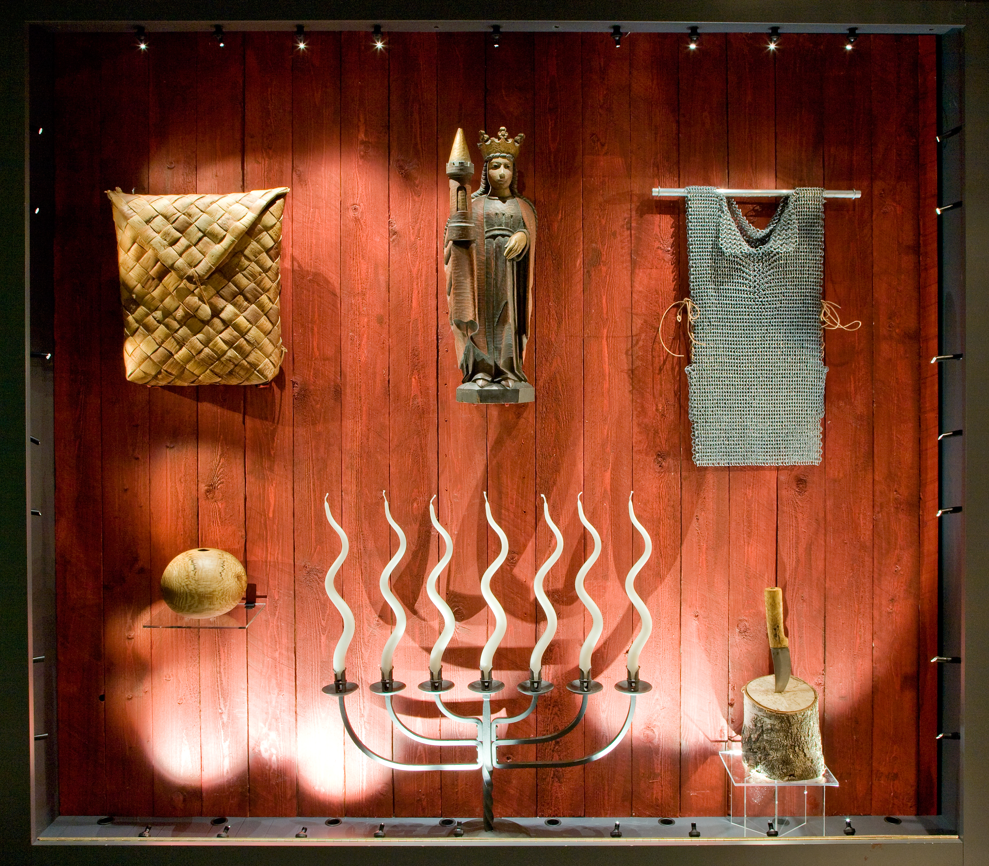 Crafts made by Finnish males in Craft museum of Finland